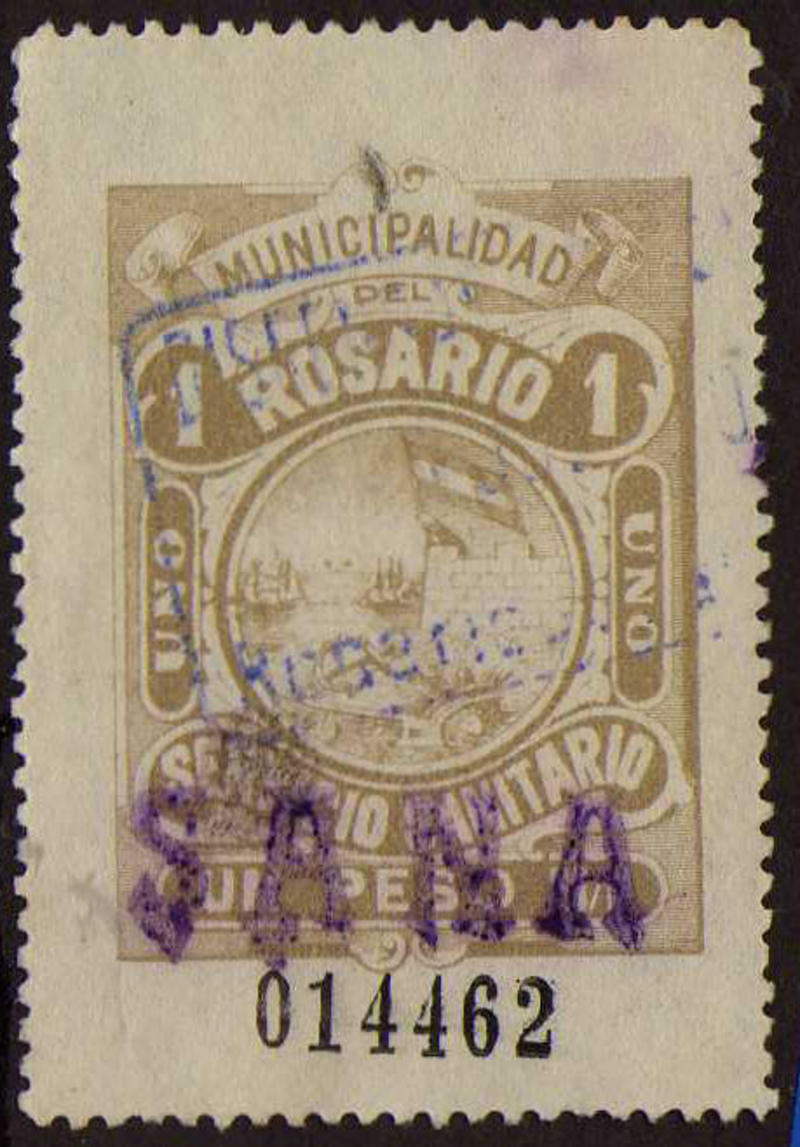 Prostitution tax revenue stamp, Rosario, Argentina